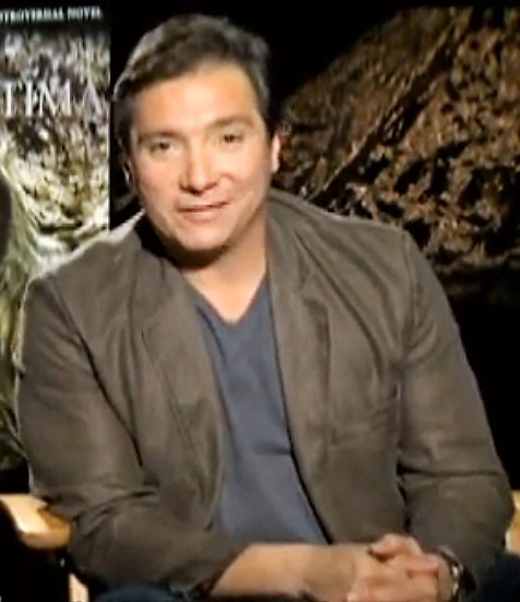 American actor Benito Martinez interviewed by Dulce Osuna about his film "Bless Me, Ultima".